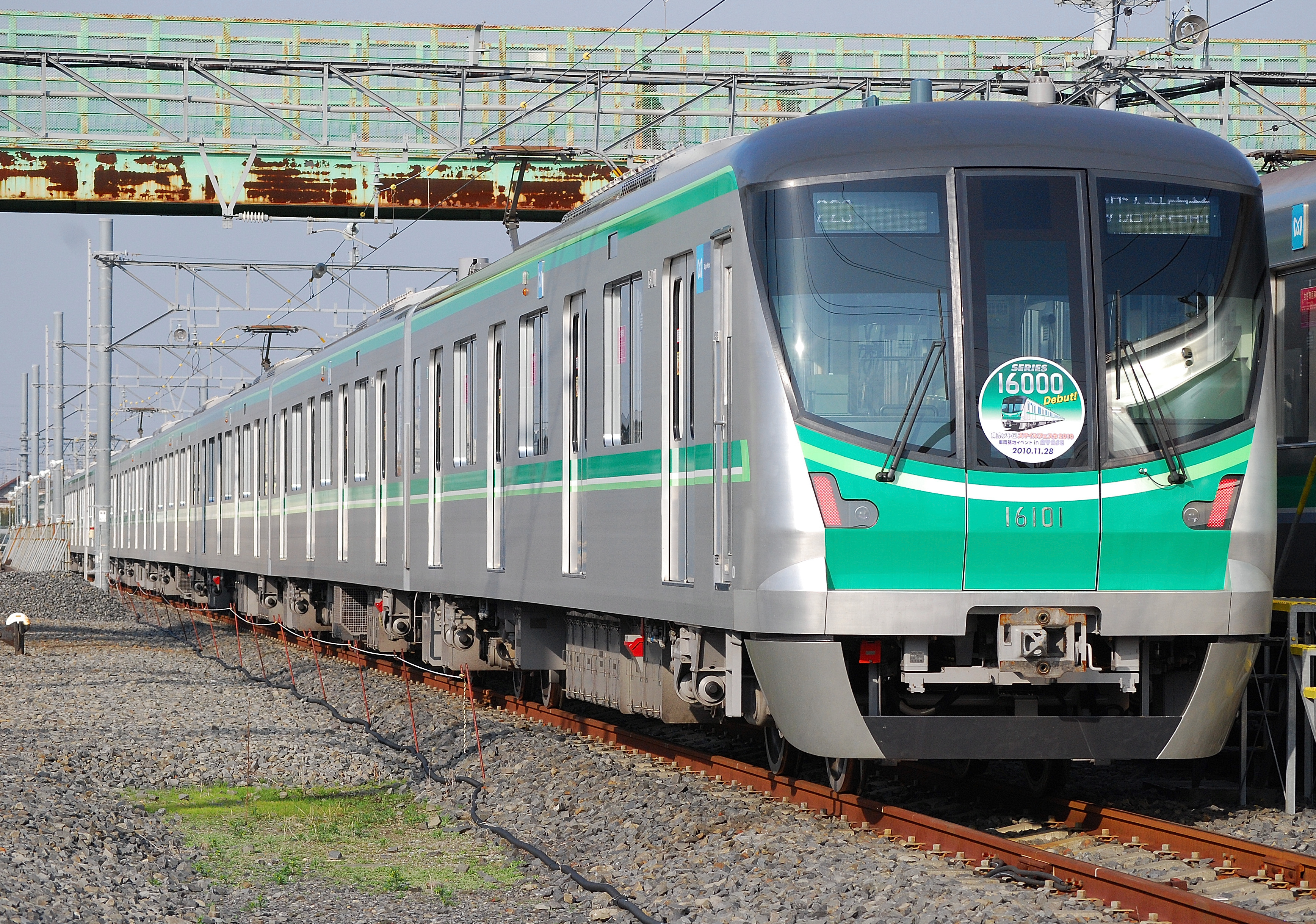 Tokyo Metro 16000 series EMU set 16101 on public display at Ayase Depot Open Day